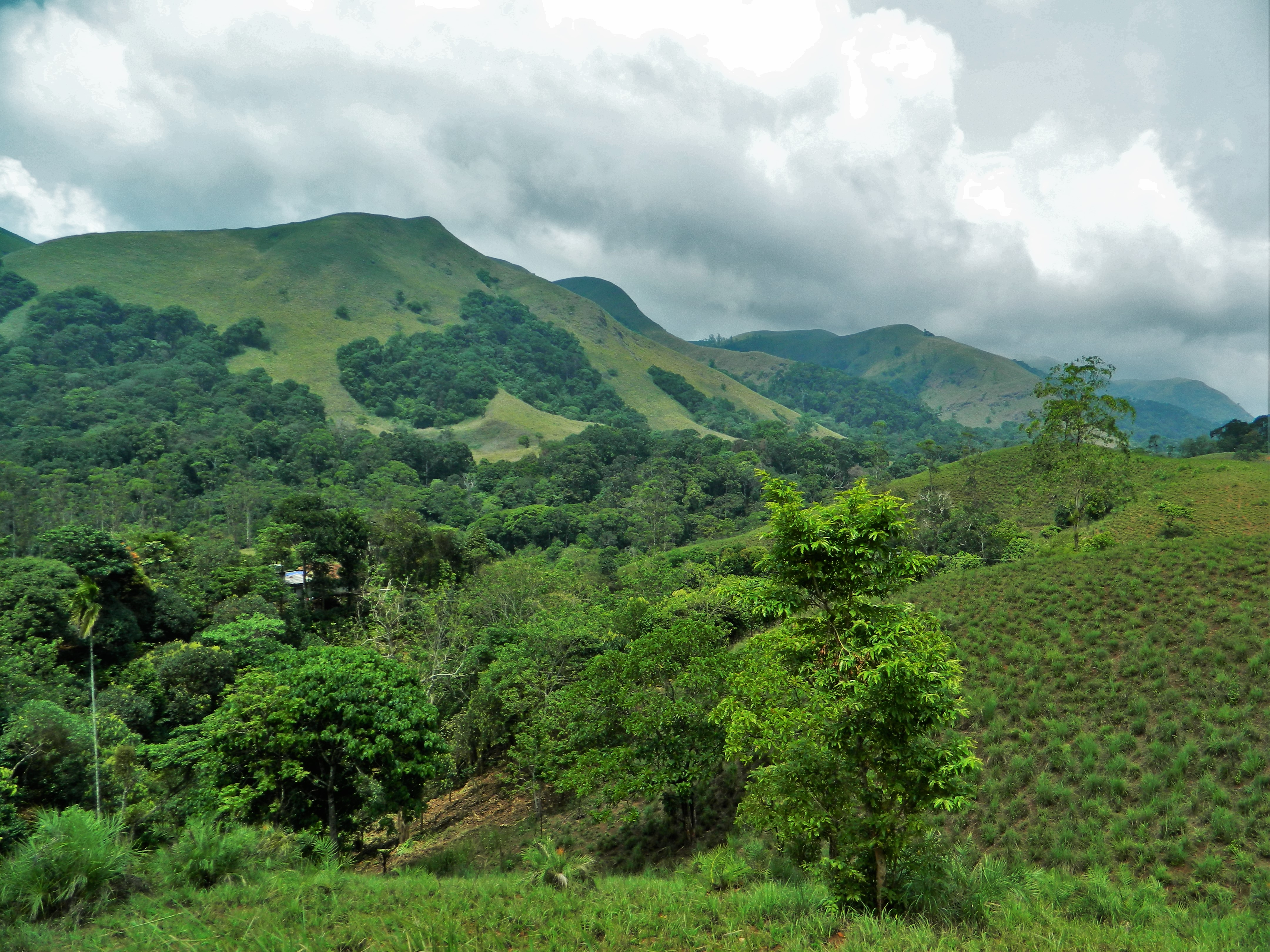 Sholas are the tropical montane forest. The image is from the southern western ghats